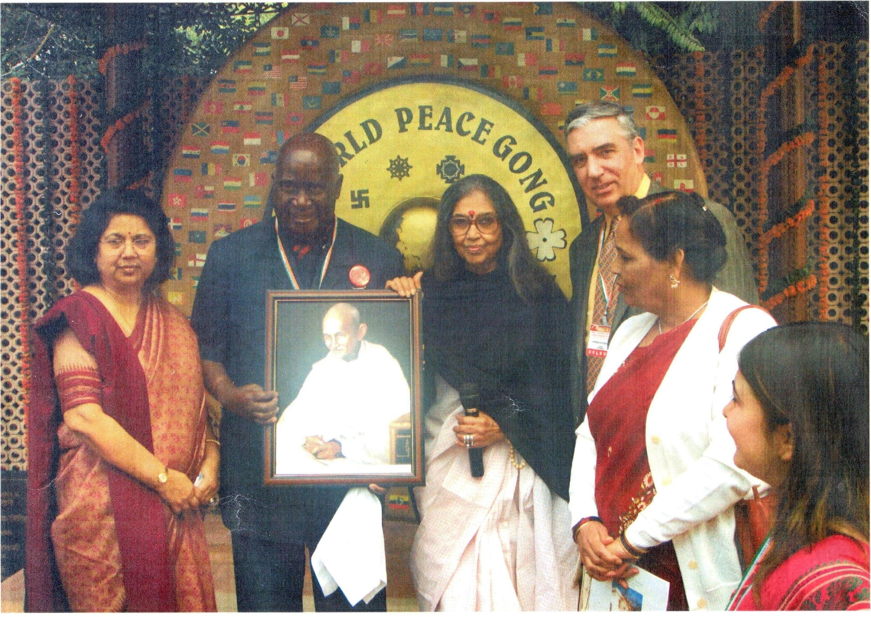 Георгий Хуцишвили